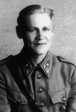 Kaarlo Lehtonen, Knight of the Mannerheim Cross #76